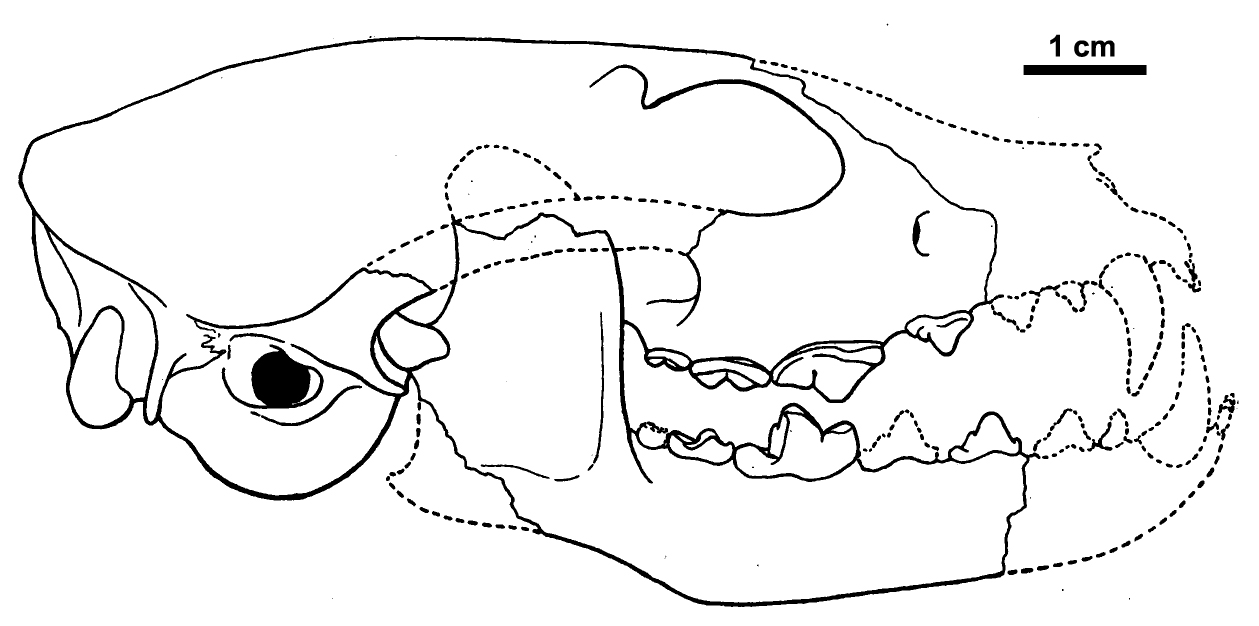 Drawing of AMNH 12879, the holotype skull of Leptocyon gregorii (MATTHEW 1907), orig. comb. Nothocyon gregorii, from the middle Arikareean (Upper Oligocene) Rosebud beds of South Dakota, USA.